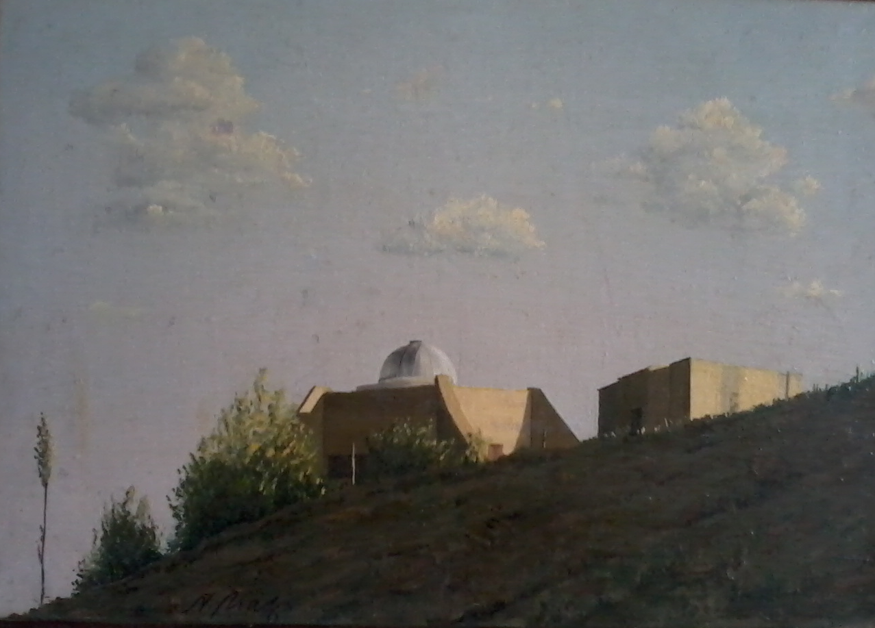 Oil Painting By Dr. Nematollah Riazi